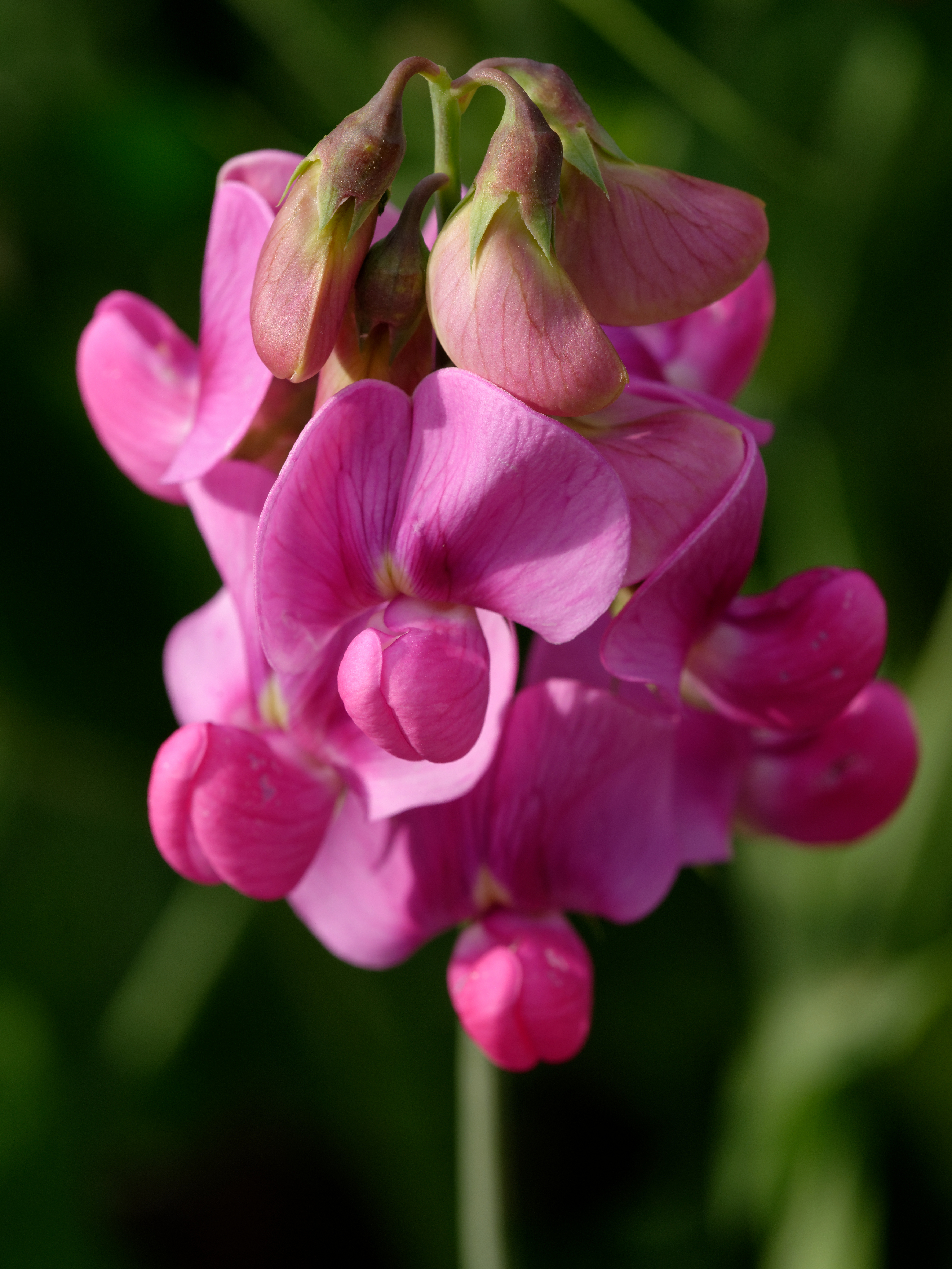 Everlasting sweet pea (Lathyrus latifolius) in the botanical school of the Jardin des Plantes, Paris.